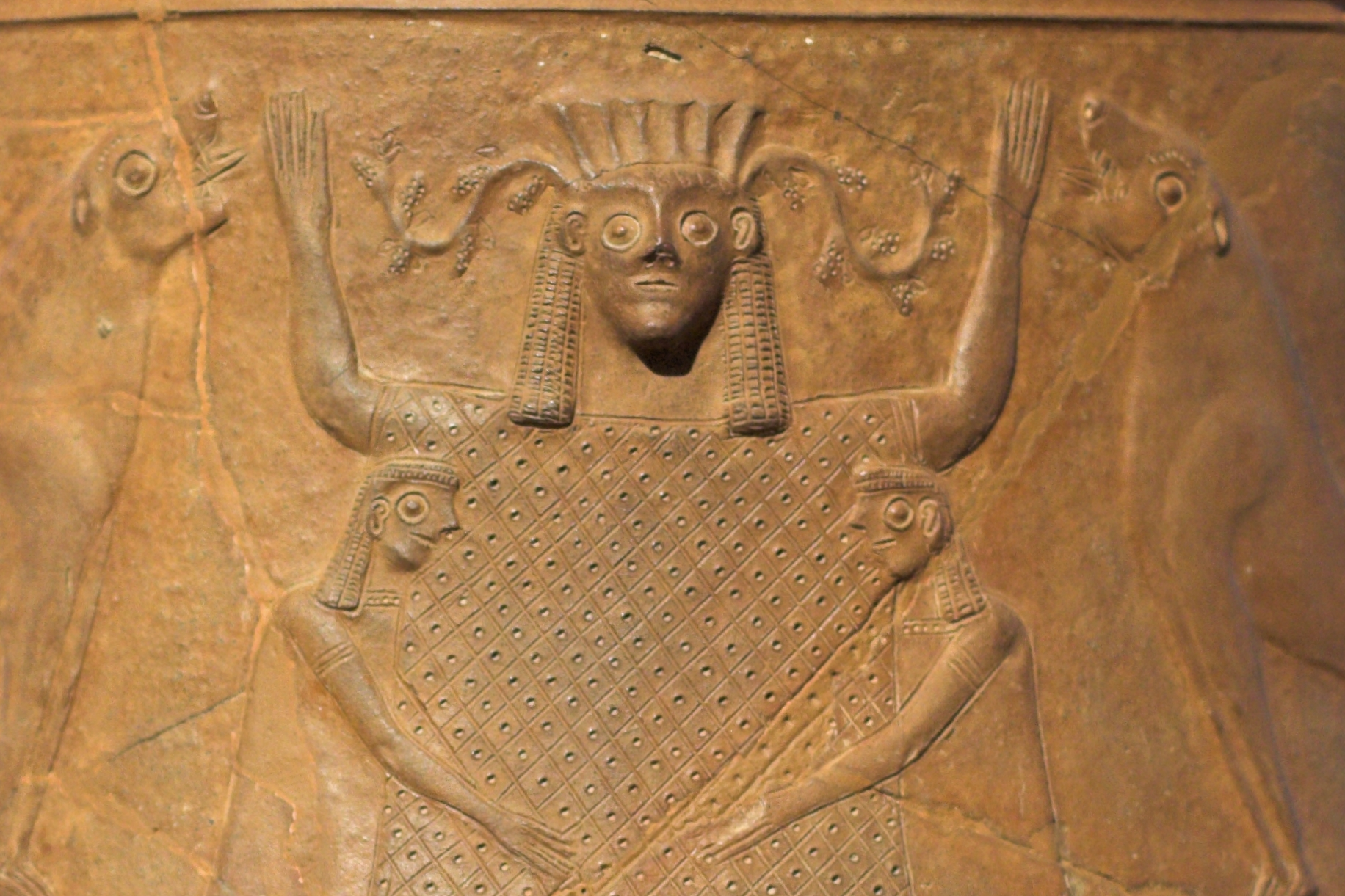 Detail of the goddess. Mighty mistress of animals (Potnia theron) and nature. Pithos with relief, from the years 625-600 BC. National Archaeological Museum of Athens, NAMA 355.